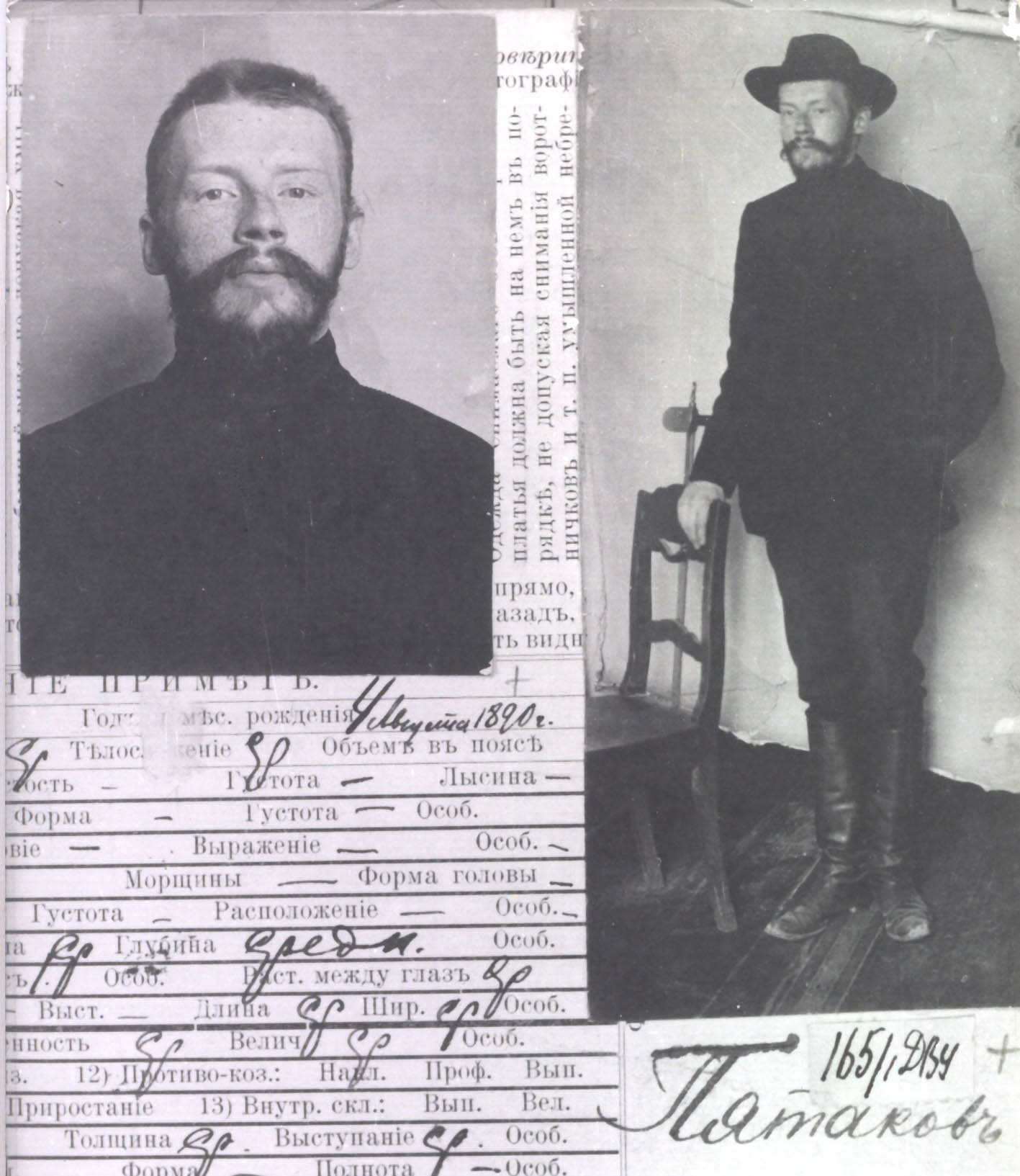 Prison papers Georgy Pjatakov